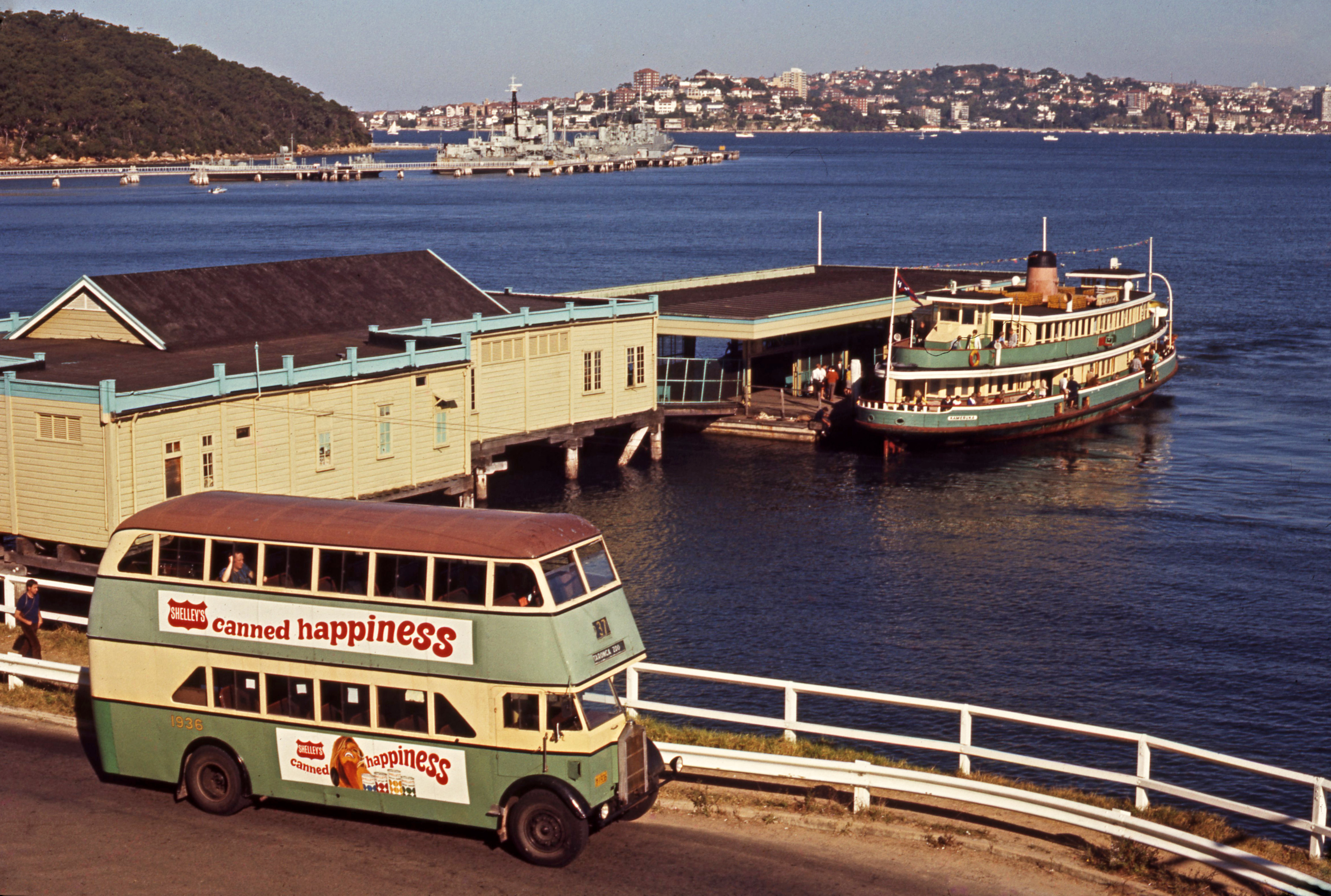 Sydney Ferry KAMERUKA and DGT Albion SPCX19W 1936 at Athol (Taronga Zoo) Wharf 2 May 1970. John Ward, John Ward Collection - Buses (02/05/1970), [A-01112226]. City of Sydney Archives, accessed 15 May 2020